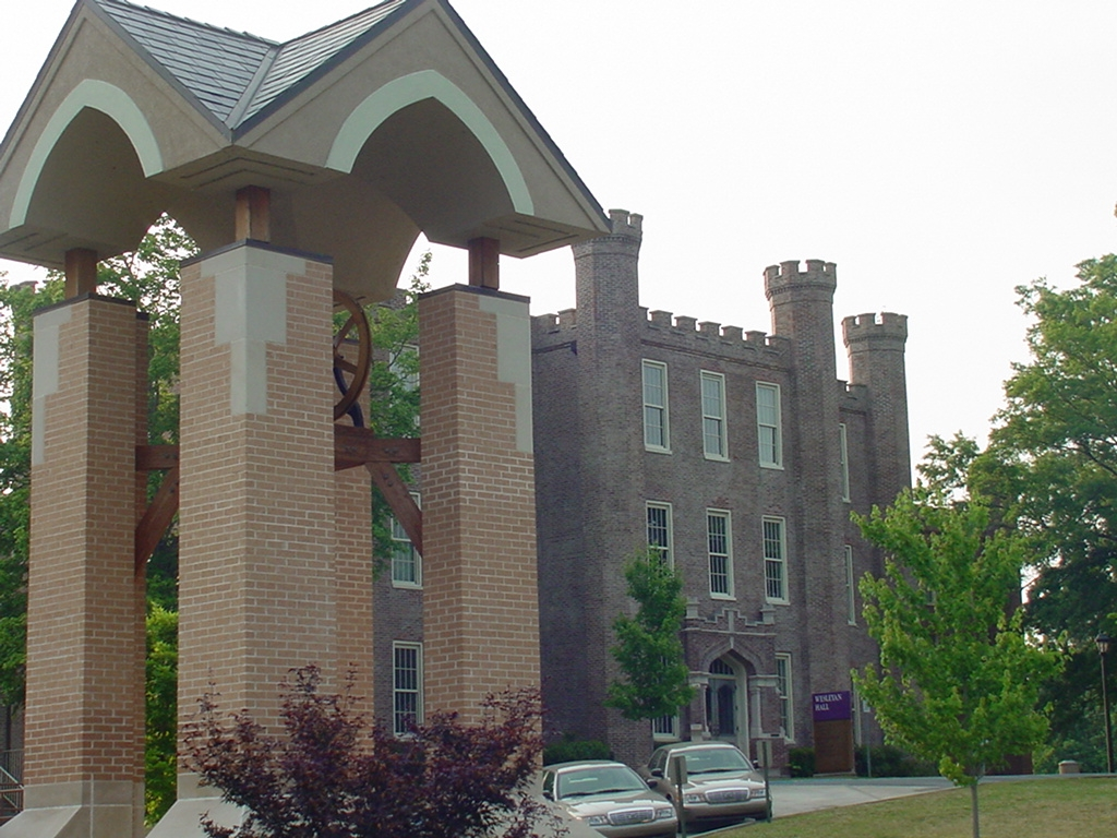 Taken by me of Smith Bell Tower and Wesleyan Hall on the University of North Alabama campus on May 28, 2007.